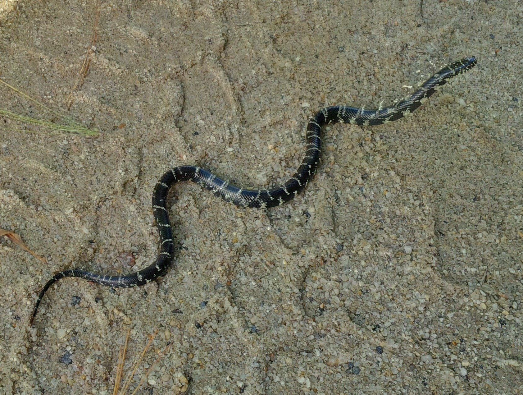 Juvenile Lampropeltis getula getula (Eastern King Snake)